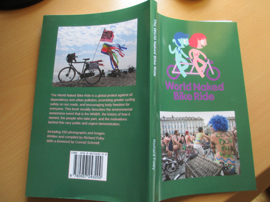 I've been corresponding with the author since he found my site on the net. He has been in touch with many participants of WNBR rides from all over the world. Book includes 250 photographs plus lots of text. Foreword written by Conrad Schmidt of Vancouver, BC; a definite pioneer in naked bike protest as well as other progressive things like the Workless Party of Canada (advocates for shorter workweek). Two of my pictures were used in this book. Author Richard Foley, 2012. Available in some bookstores and sites like . More information is available from his web site.